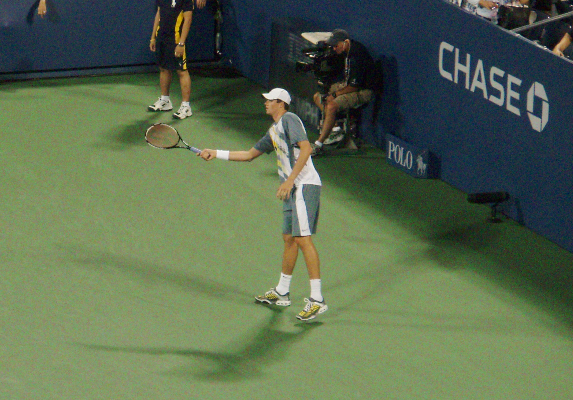 John Isner 2007 US Open